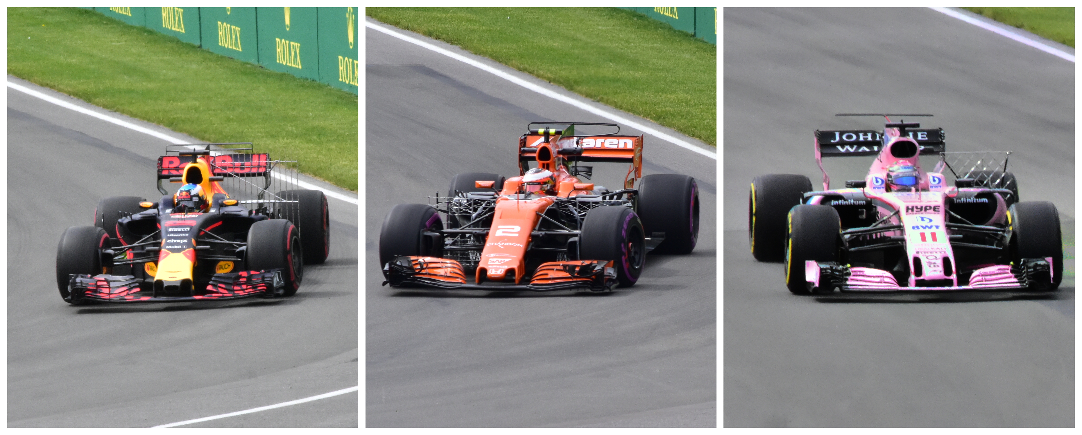 Three different types of aero rakes from Red Bull, McLaren, and Force India. Aero rakes consist of an array of Kiel probes which will map airflow across the full surface of the rake. The data reveals the amount of turbulence created by the front tyre and is compared with corresponding data from wind tunnel testing and computational fluid dynamics simulations. Aero rakes are used in free practice, usually early on FP1.